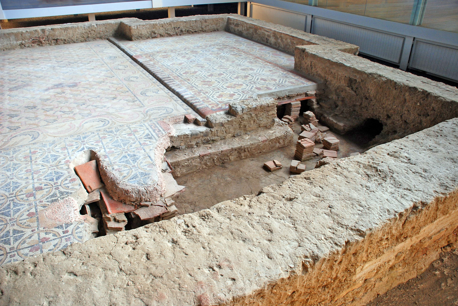 Roman Villa of La Olmeda in Pedrosa de la Vega (Palencia, Castile and León).